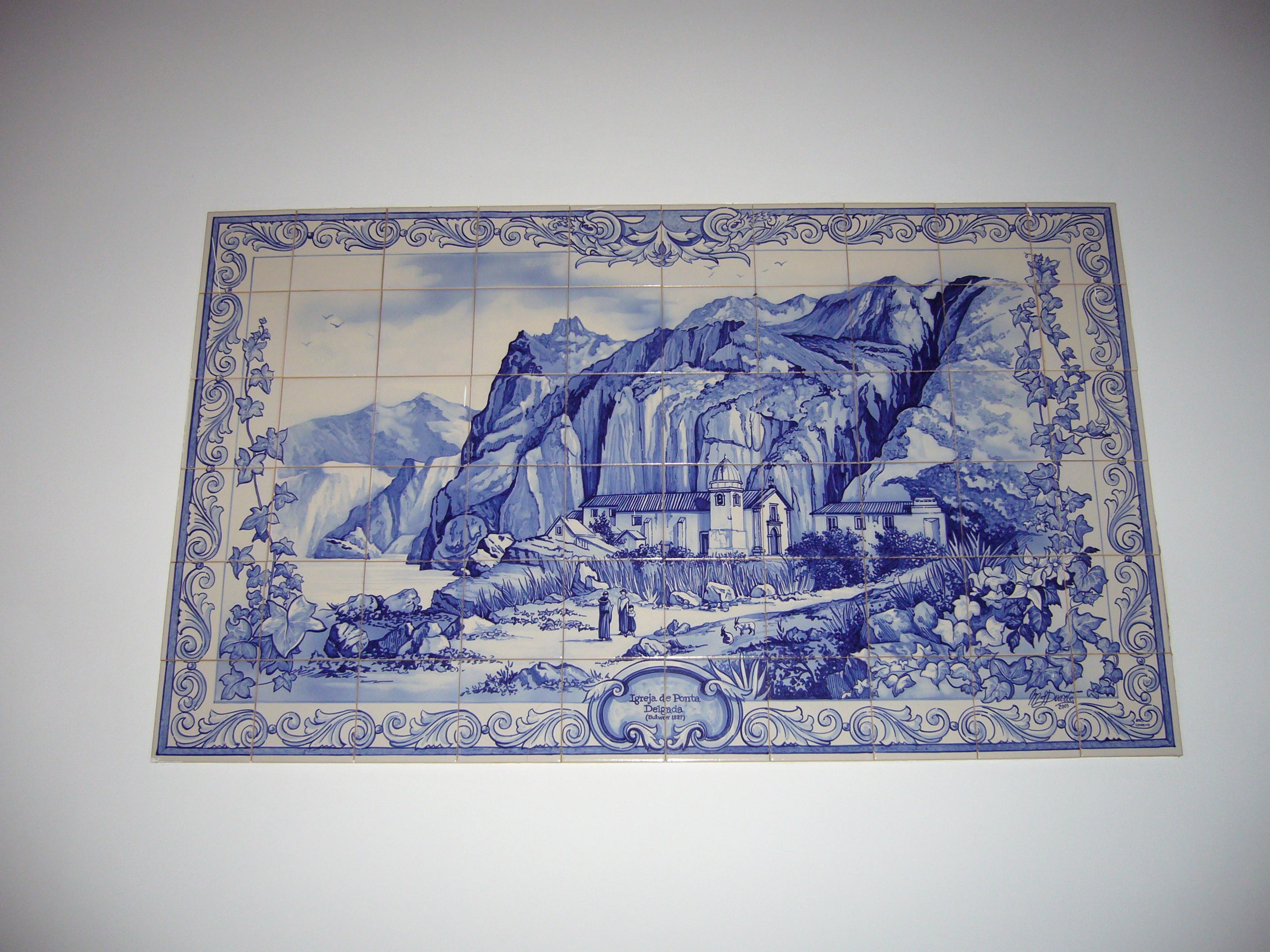 Azulejo from the church in Ponta Delgada (Madeira)